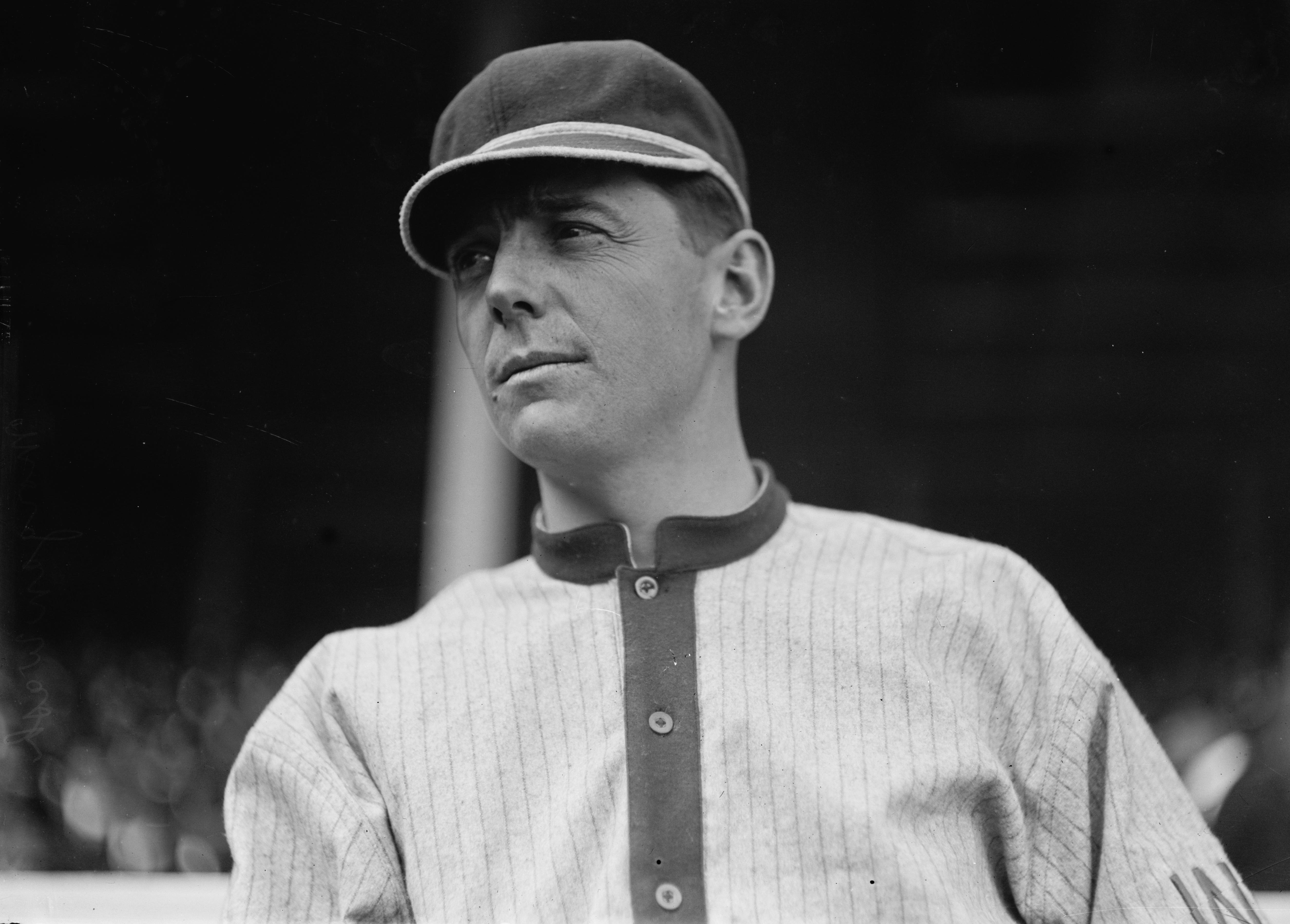 Baseball player Clyde Milan in 1913. Cropped image